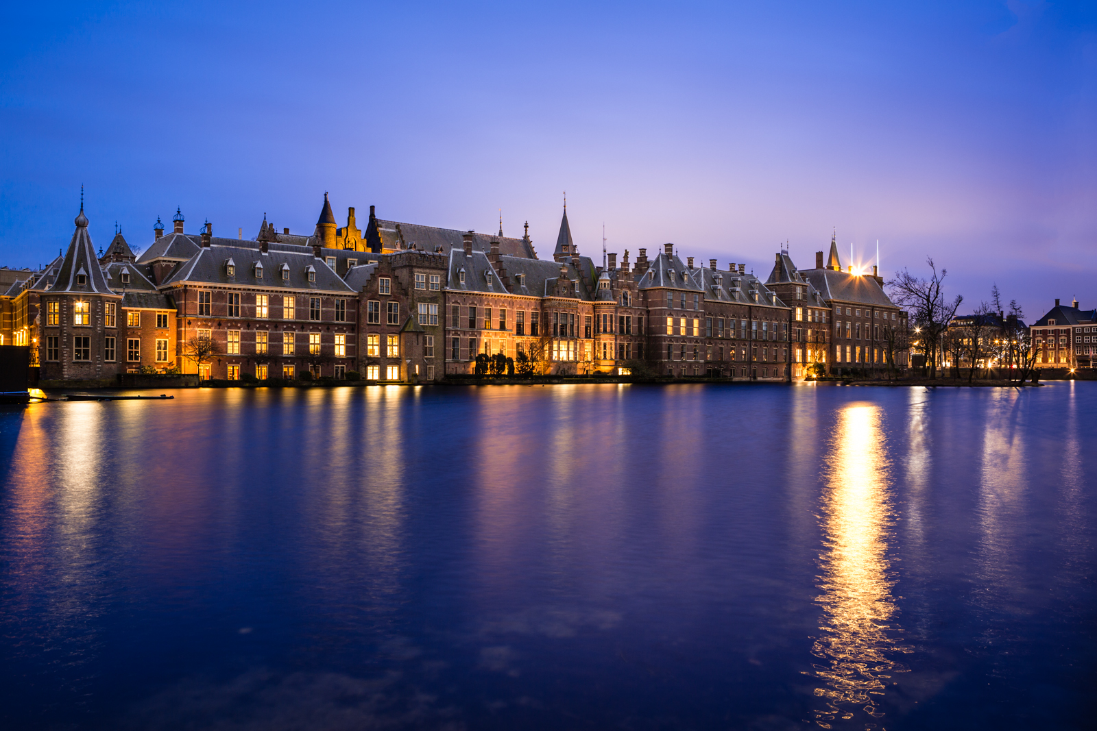 It's been very cloudy today, but luckily the sky tends to color very nicely at this time of day. Enjoy! The Binnenhof (Dutch, literally "inner court"), is a complex of buildings in The Hague. It has been the location of meetings of the Staten-Generaal, the Dutch parliament, since 1446, and has been the center of Dutch politics for many centuries. (Source: Wikipedia) Absolutely best on black.